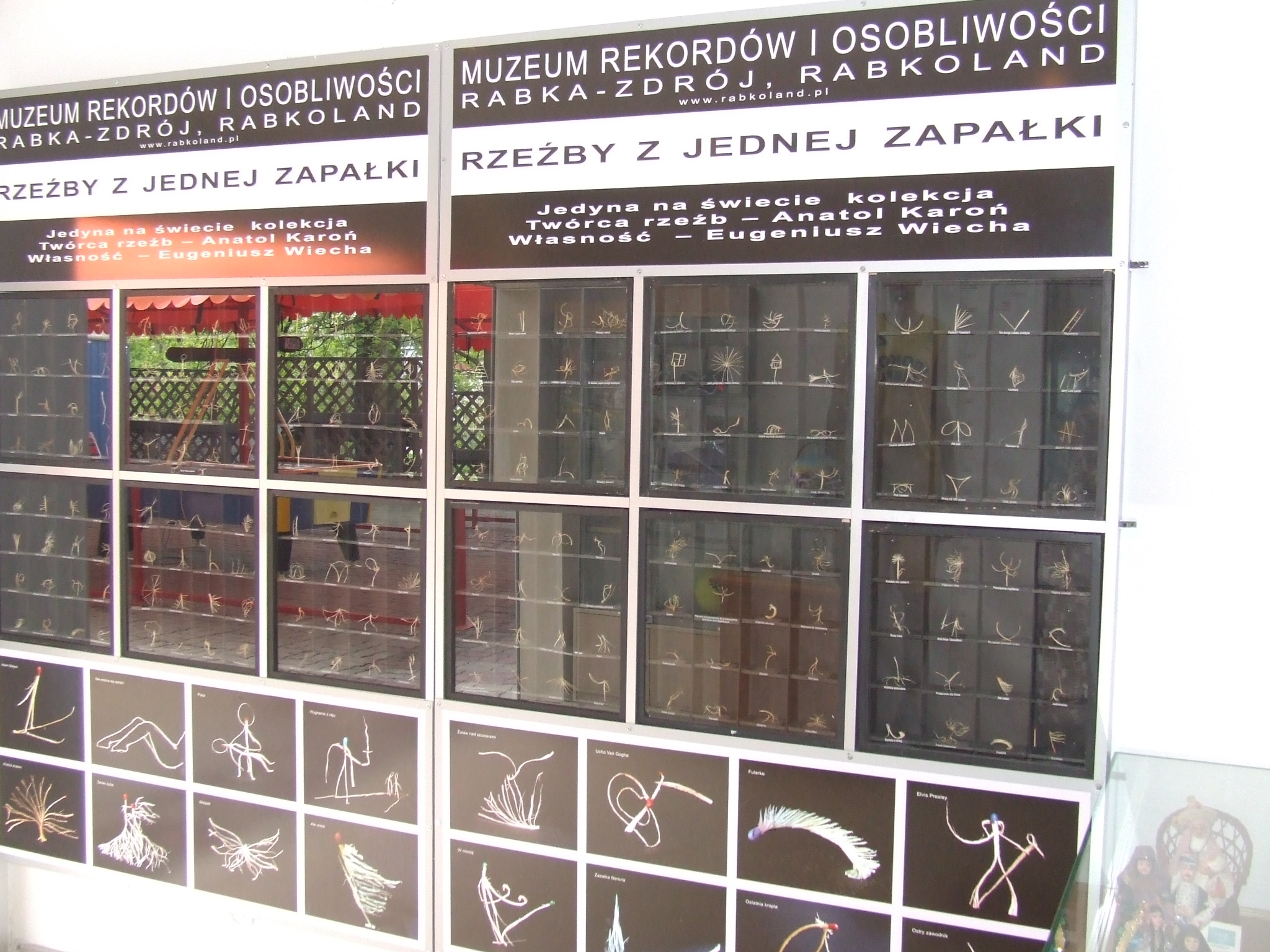 Museum of Records and Curiosity